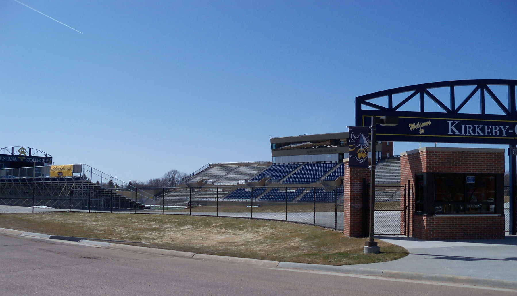 Kirkeby-Over Stadium on the campus of Augustana College in Sioux Falls, South Dakota, USA.